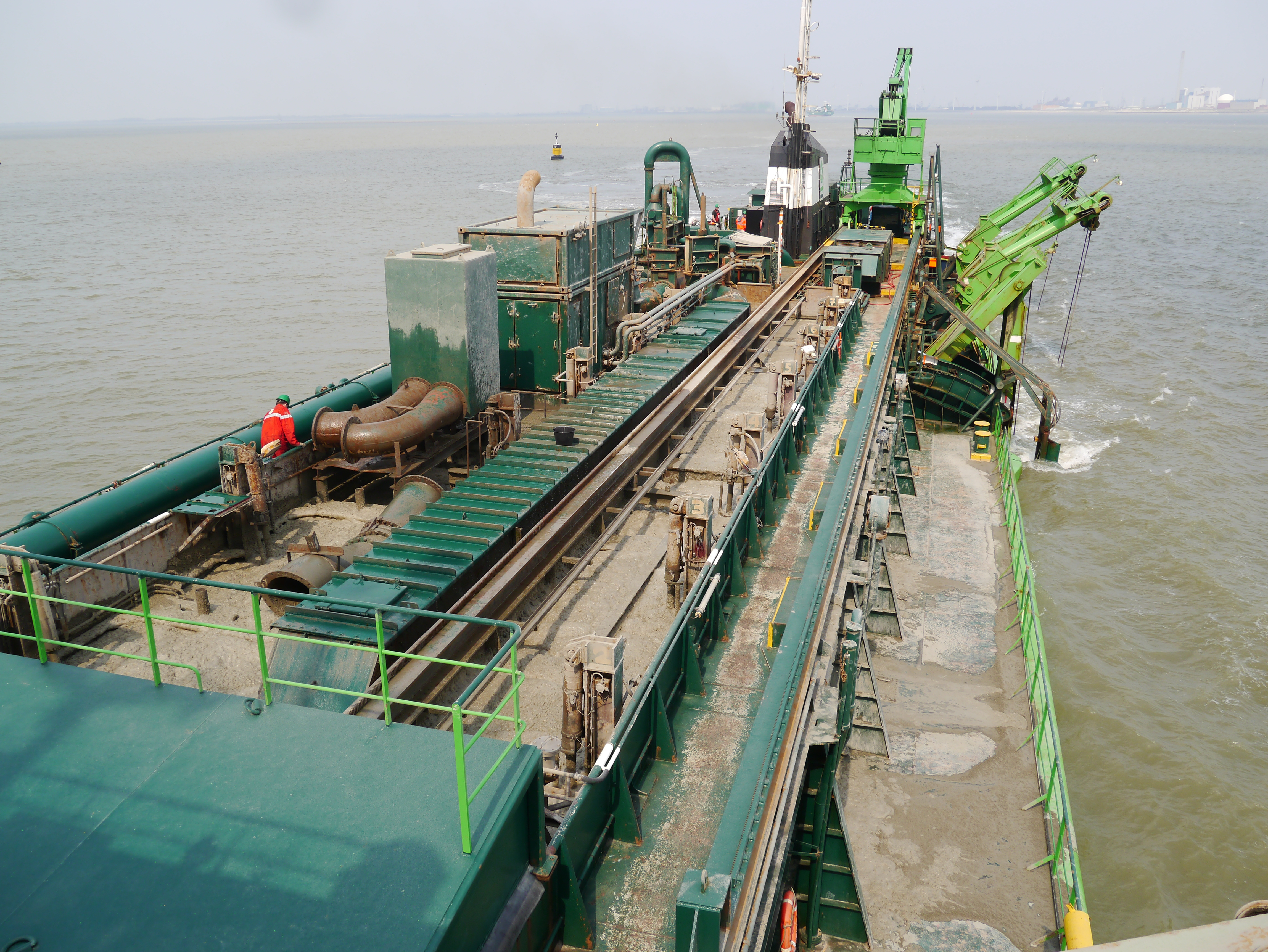 Deck of the Jade River as seen from the bridge.